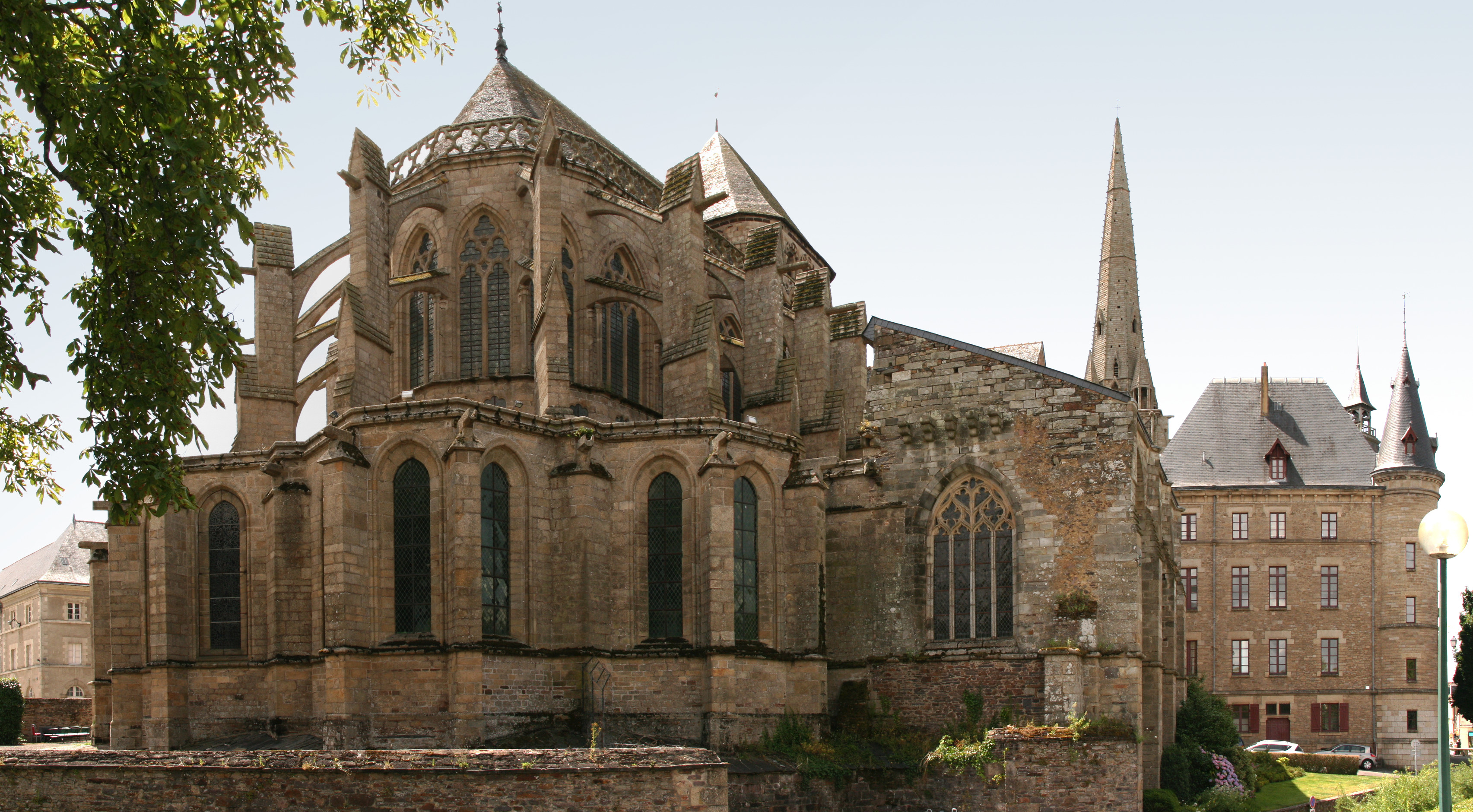 Chevet of the church and high of the gothic church tower of the abbey Saint-Sauveur, and town hall of Redon, Brittany, France.